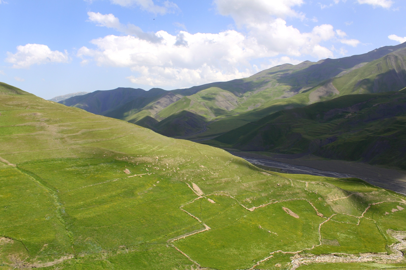 Quba area, Azerbaijan.